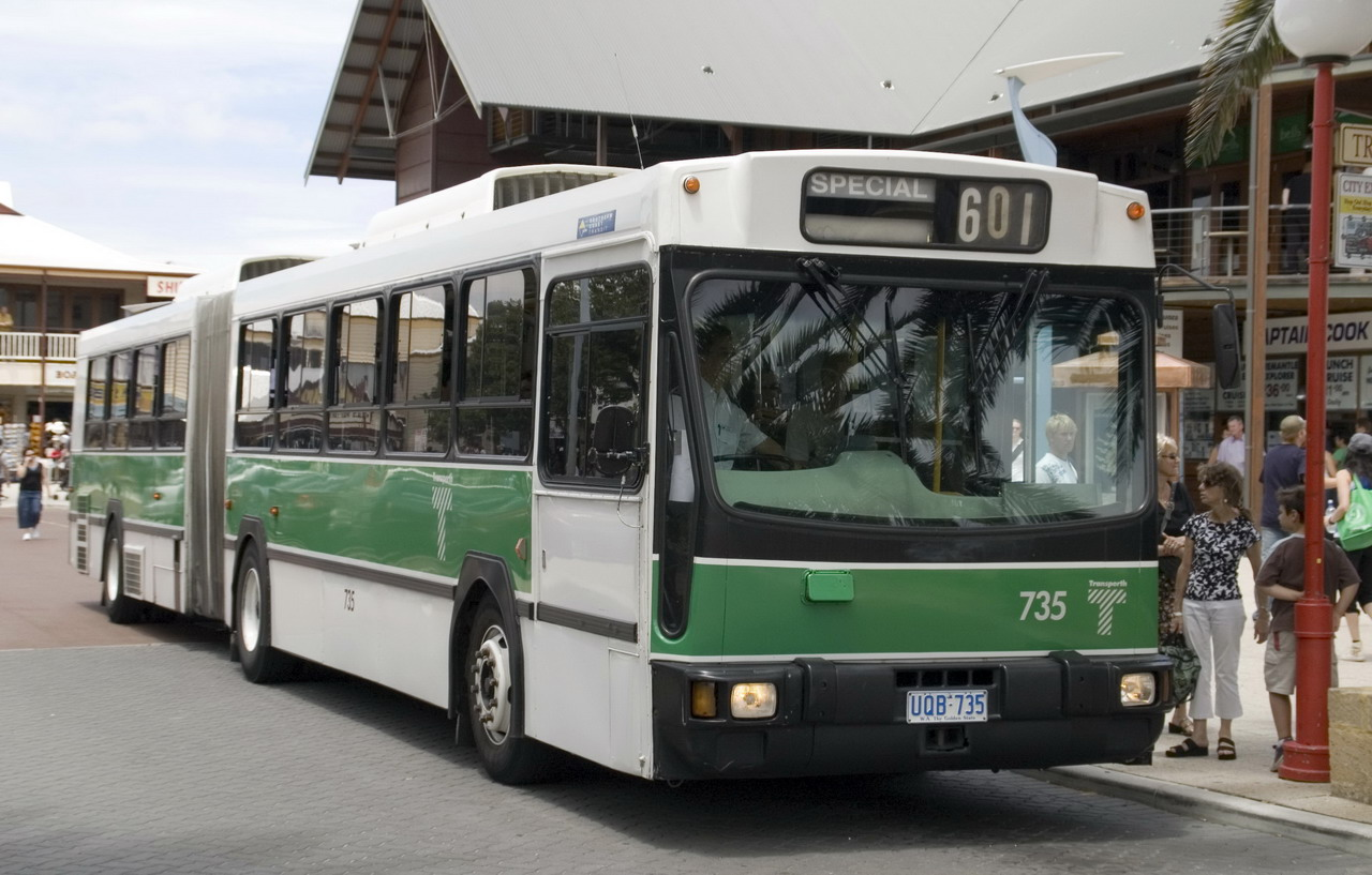 Transperth Renault PR180-2 Artic bus #735, operated by Southern Coast Transit.